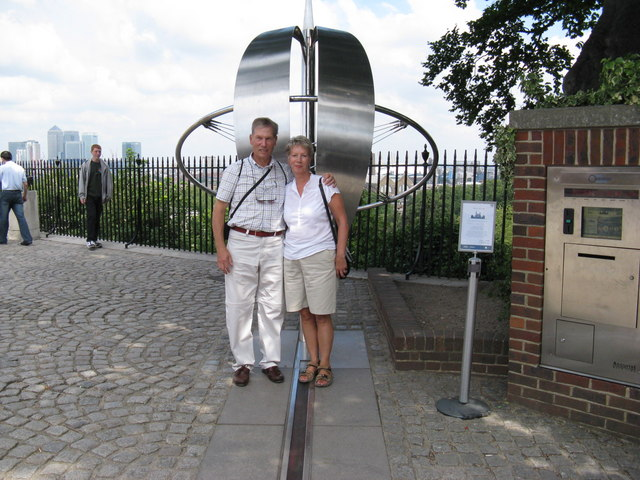 Greenwich Observatory- Meridian Line